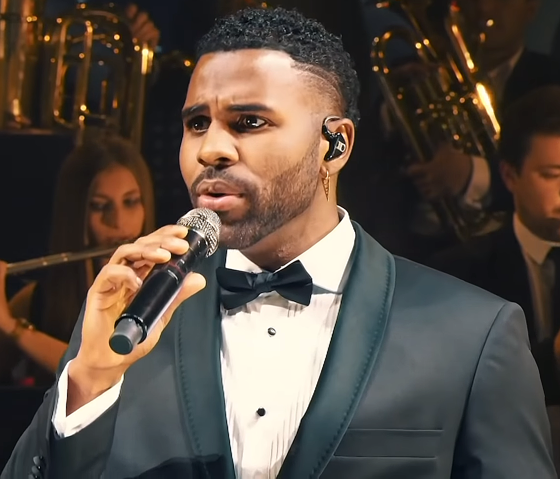 Jason Derulo performing live with David Guetta & Nicki Minaj at MTV EMA 2018.